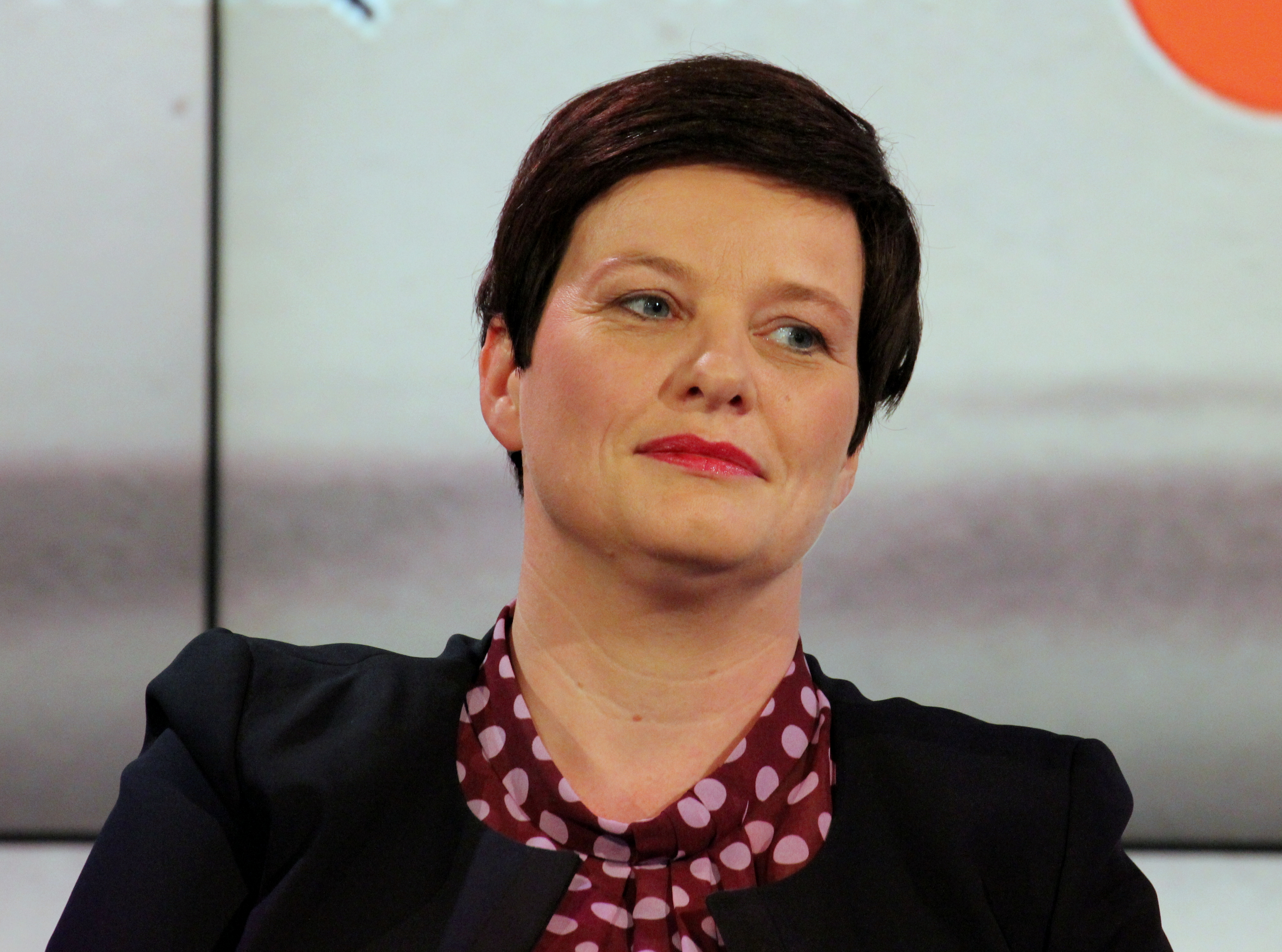 Birte Förster Frankfurt Book Fair 2018